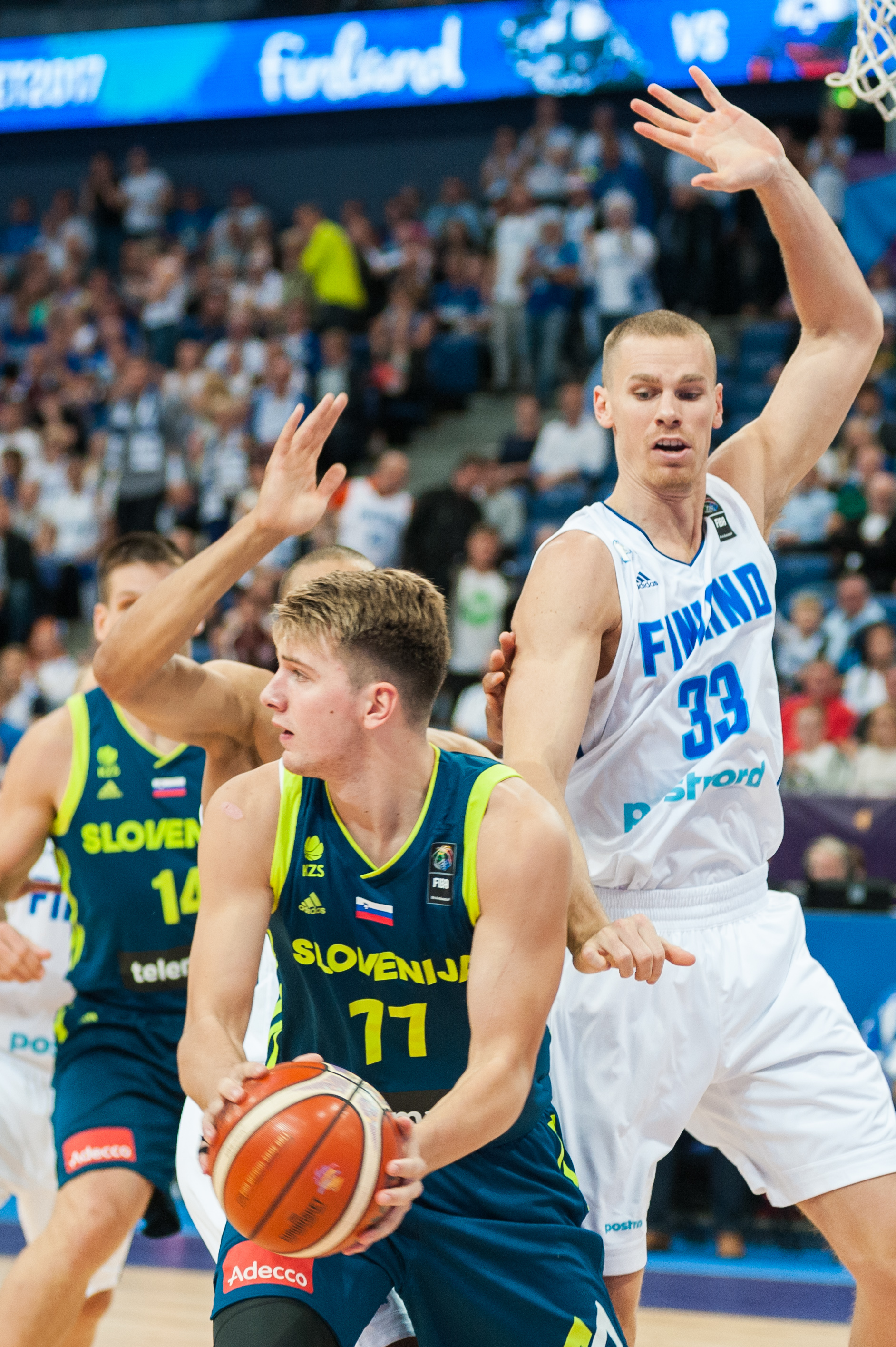 EuroBasket 2017 Group A game between Finland and Slovenia at Hartwall Arena in Helsinki, Finland.